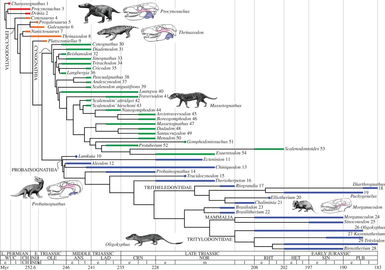 Cynodont tree plotted onto a stratigraphic scale; rectangular bars or dots show the known observed ranges of taxa; e, early; m, middle; l, late; each taxon is identified by a number, for ease of comparisons with the plots in figure 2a–c. For stage abbreviations, see §2d.